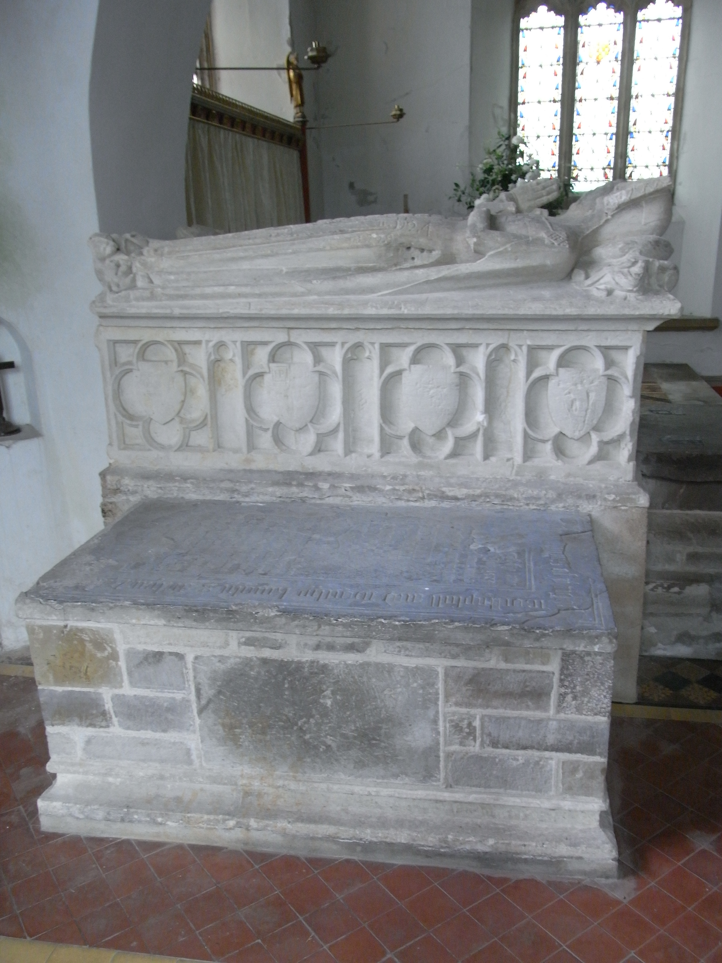 Tombs in St Mary's parish church, Atherington, Devon. In the foreground is the chest tomb of Sir Arthur Basset (1541–86) of Umberleigh and his wife Elizabeth Chichester, daughter of Sir John Chichester (died 1569) of Raleigh. The slate slab on top shows the arms of Basset impaling Chichester.